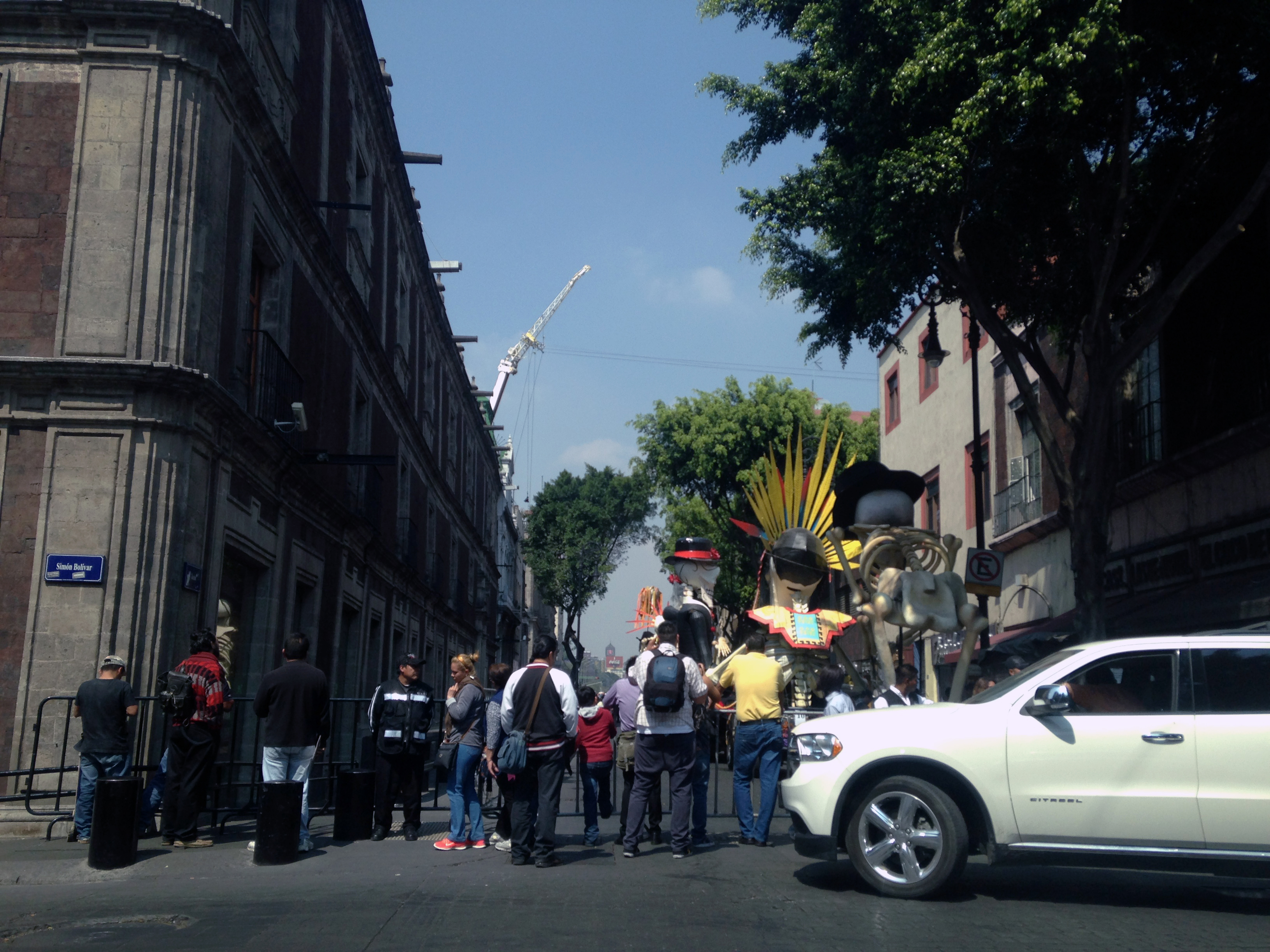 Tacuba street of Mexico City closed by Spectre filming with Day of the Dead staging.